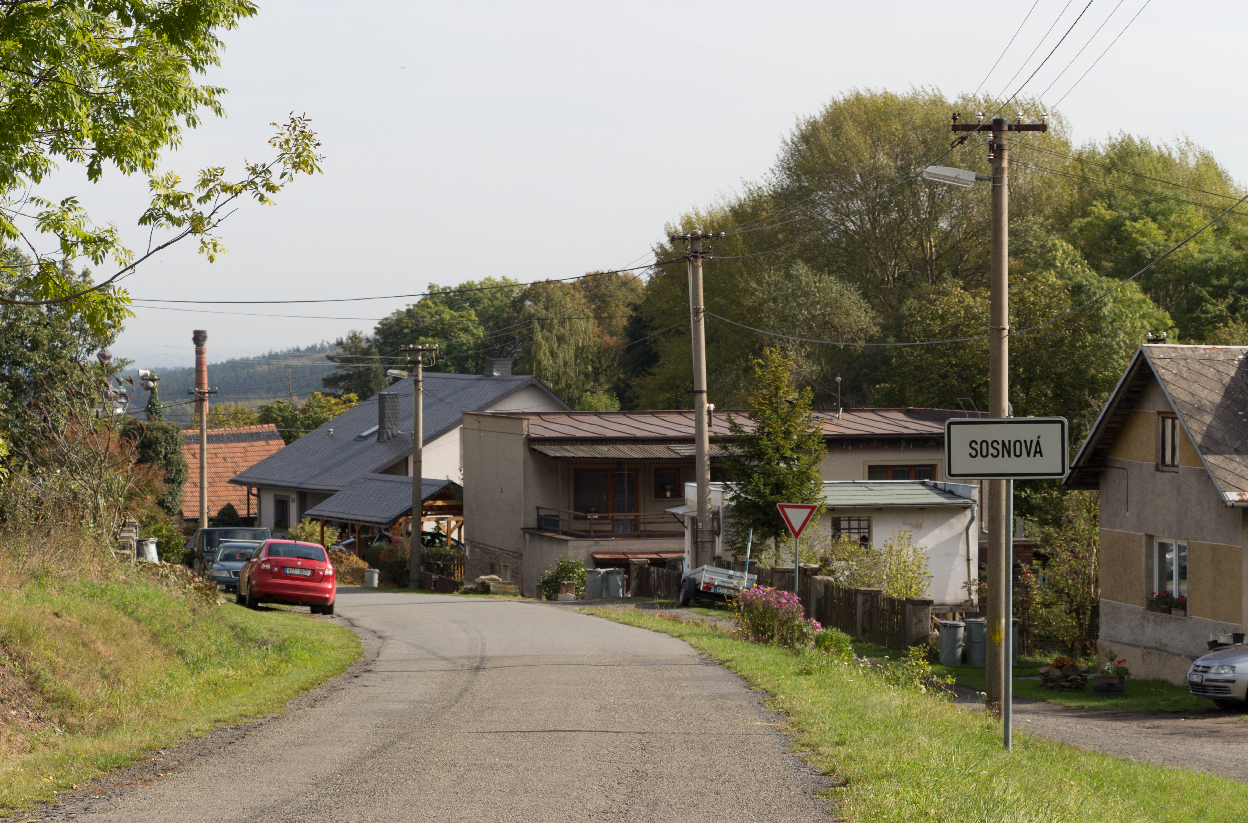 Main St. Sosnová, Opava District, Czech Republic